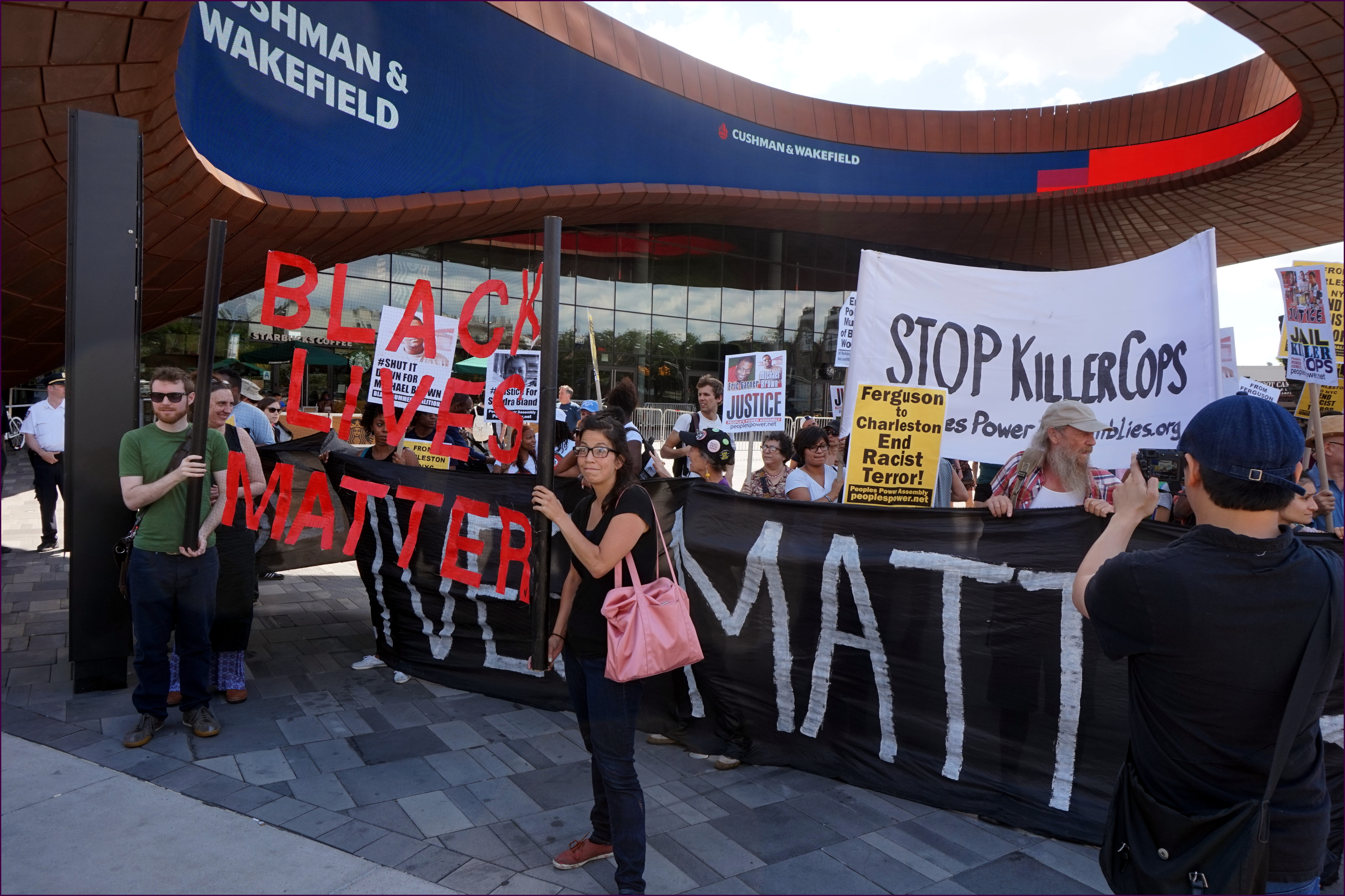 BlackLivesMatter Barclays Centre, Brooklyn